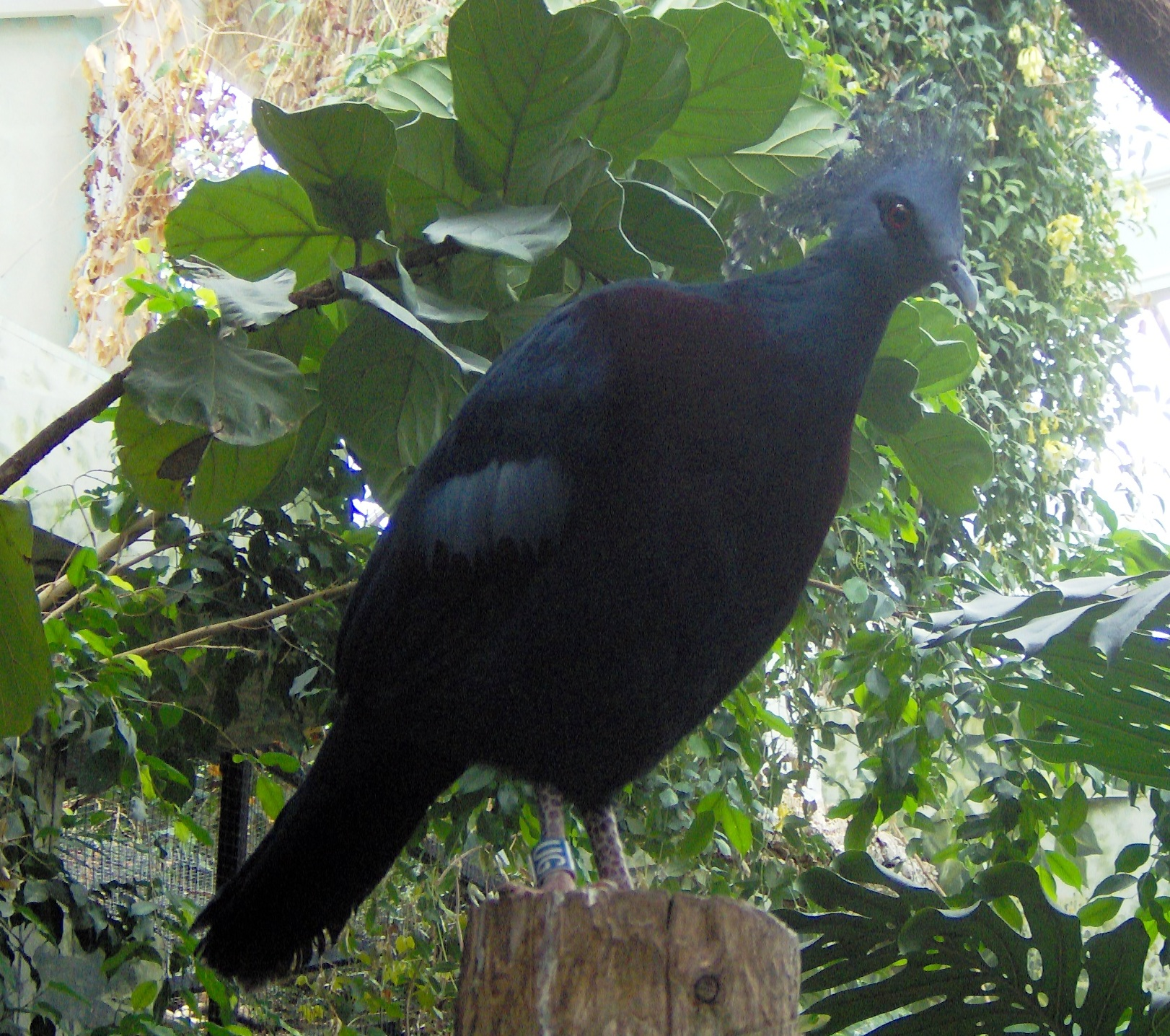 A Crowned pigeon (Goura). Taken by Rod Ward at the Bristol Zoo. 10th April 2007.